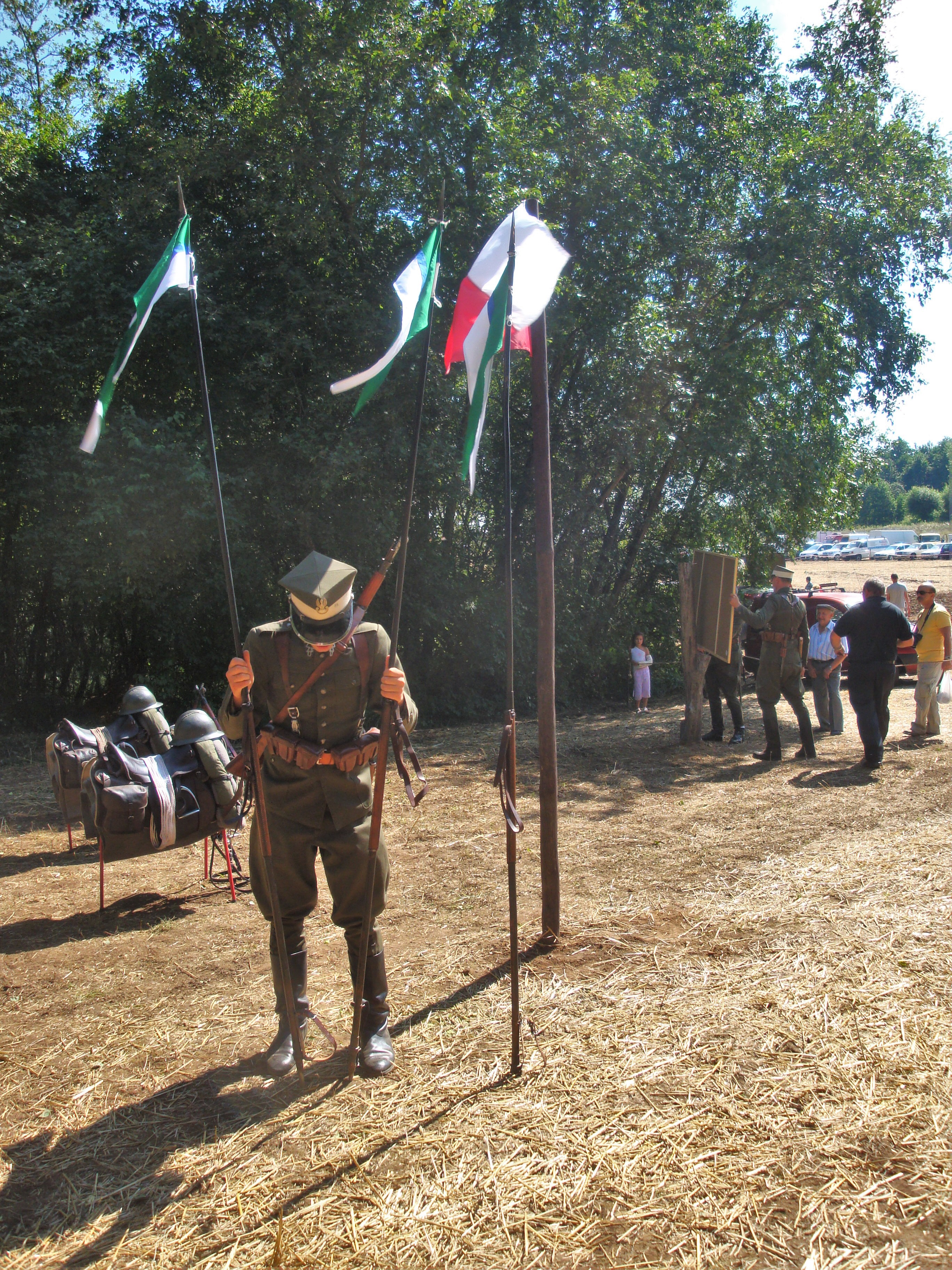 Reenactor of 8th Regiment of Mounted Rifles (Poland, 1921-39) with lances